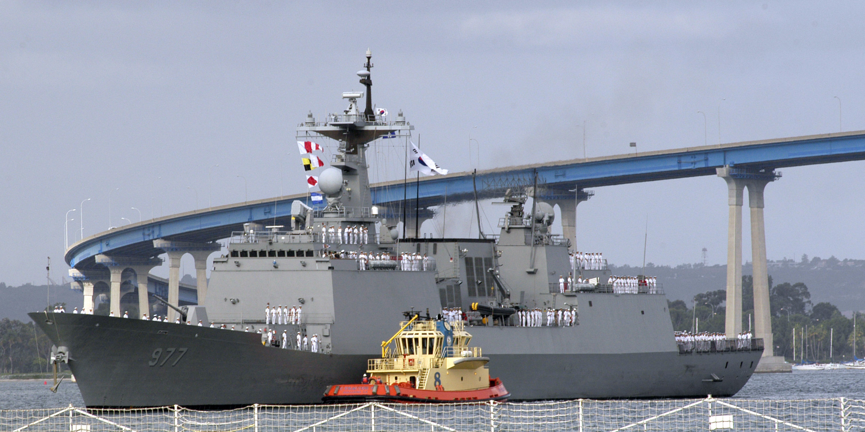 061017-N-8878B-070 San Diego (Oct. 17, 2006) - The Korean Ship Dae Jo Yeong (DDG 977), is guided into Naval Base San Diego with the help of a tugboat after passing underneath the Coronado Bridge. The Republic of Korea Navy’s visit to San Diego is in support of training efforts, and interaction with friends and allies. U.S. Navy photo by Mass Communication Specialist Seaman Michael C. Barton (RELEASED)